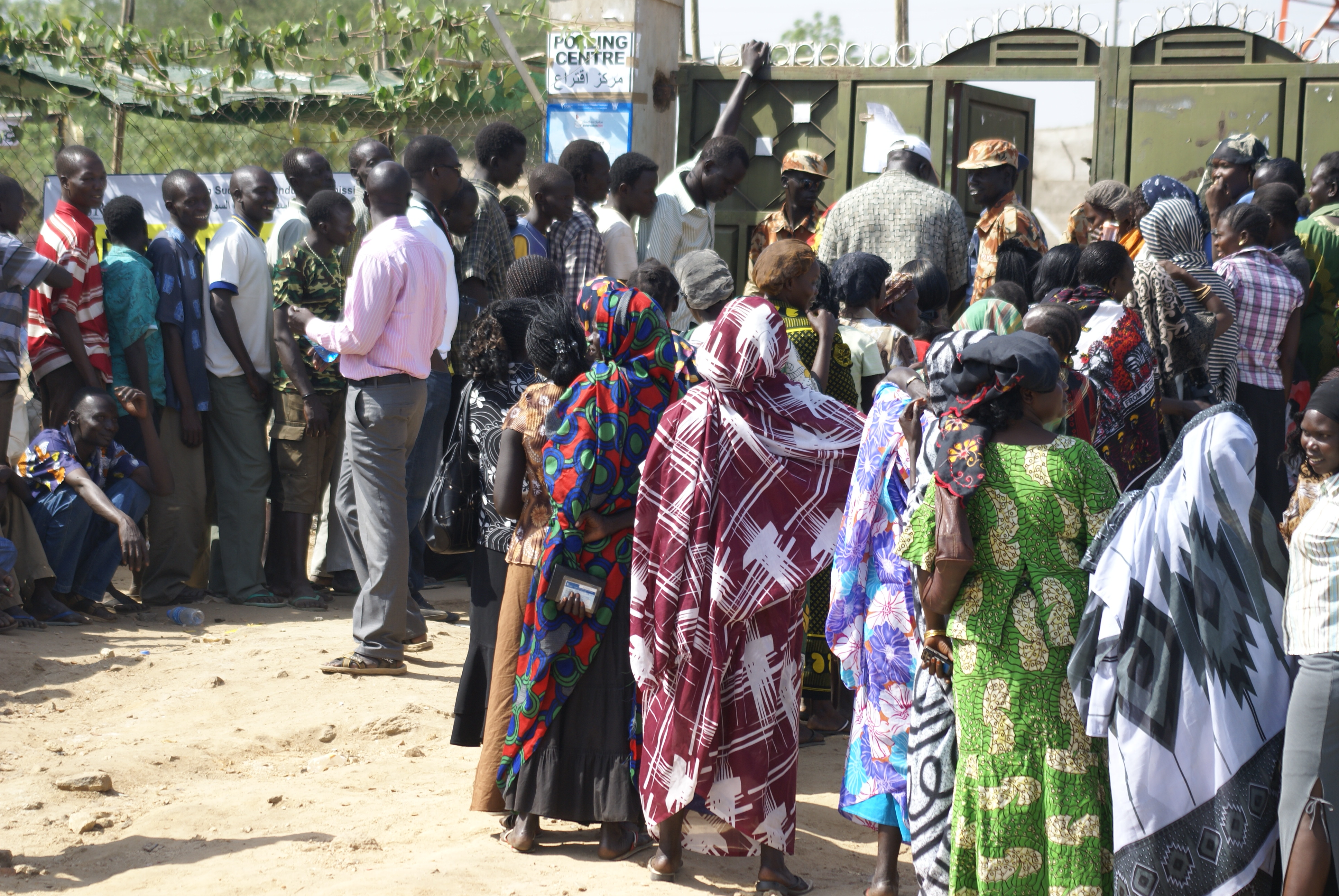 women have been among the most enthusiastic voters